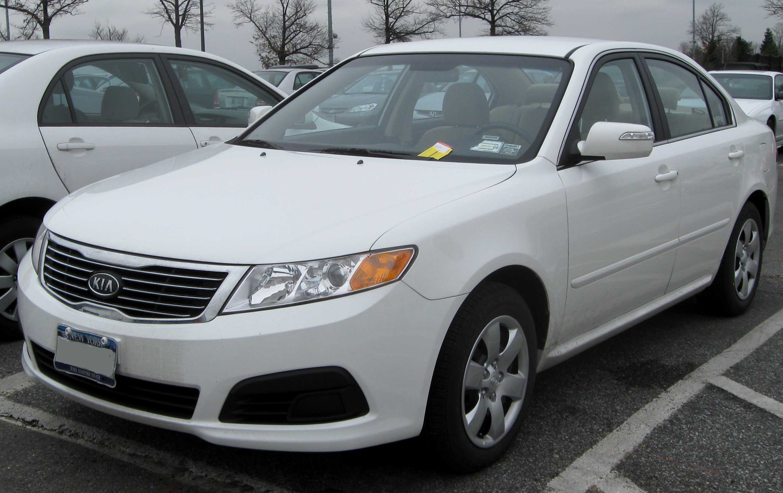 2009 Kia Optima photographed in College Park, Maryland, USA.